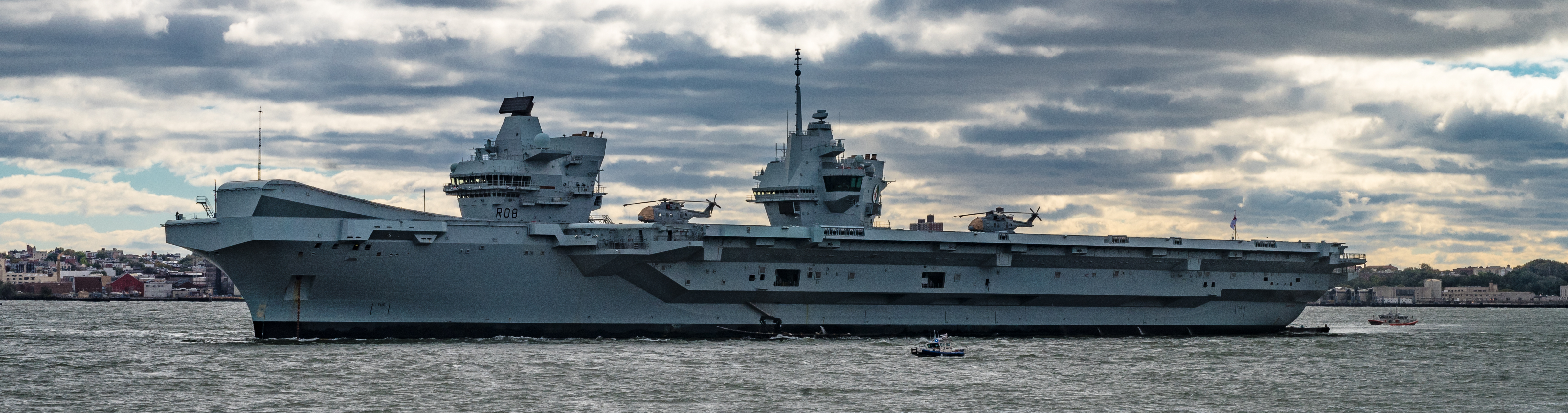 HMS Queen Elizabeth on acceptance testing in New York, as seen from the Statten Island Ferry in October 2018.